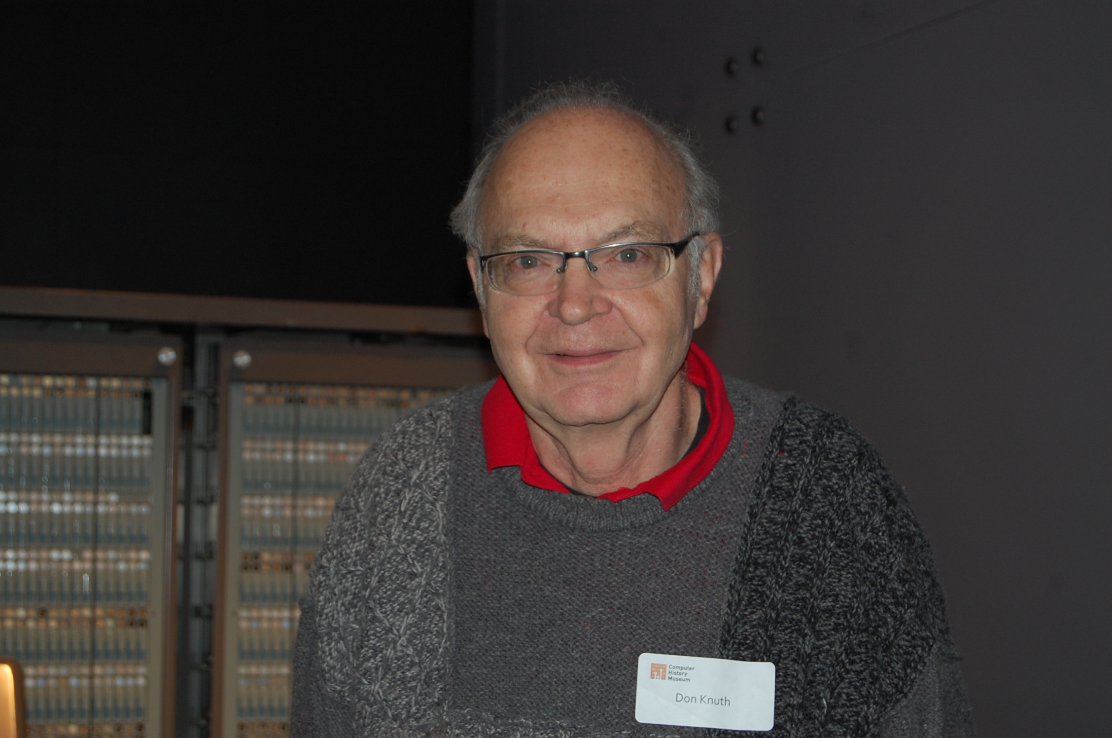 Donald Knuth at the opening event of Computer History Museum's Revolution exhibition